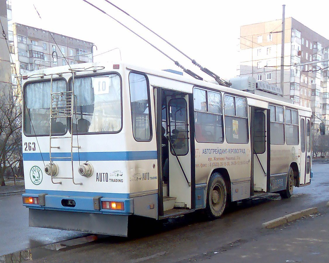 Trolleybus YuMZ-T2 (#263) in Kirovograd